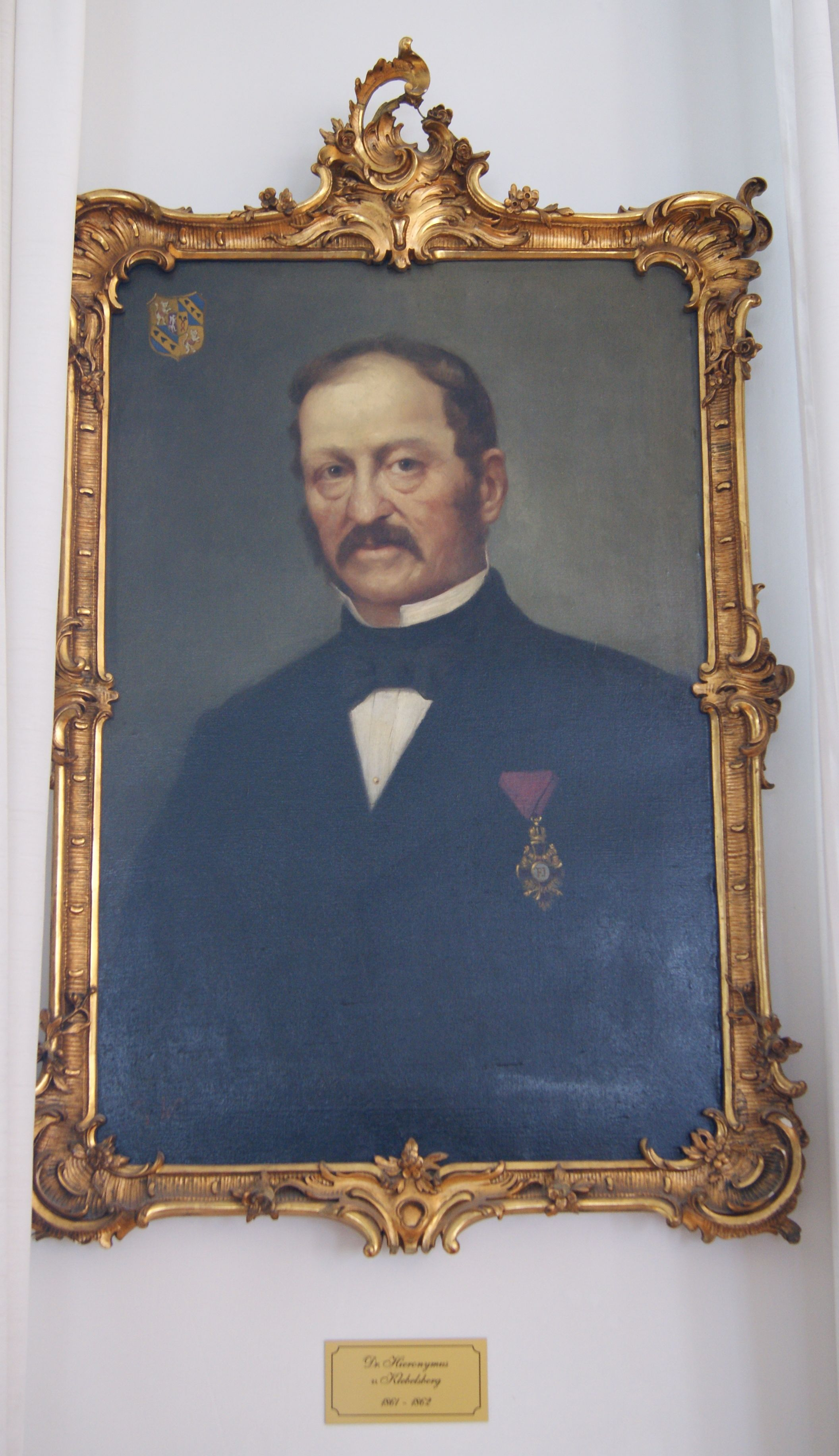 Hieronymus von Klebelsberg zu Thumburg, head of the Provincial Government of Tyrol.